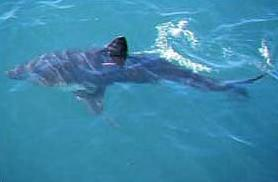 Salmon shark (Lamna ditropis)